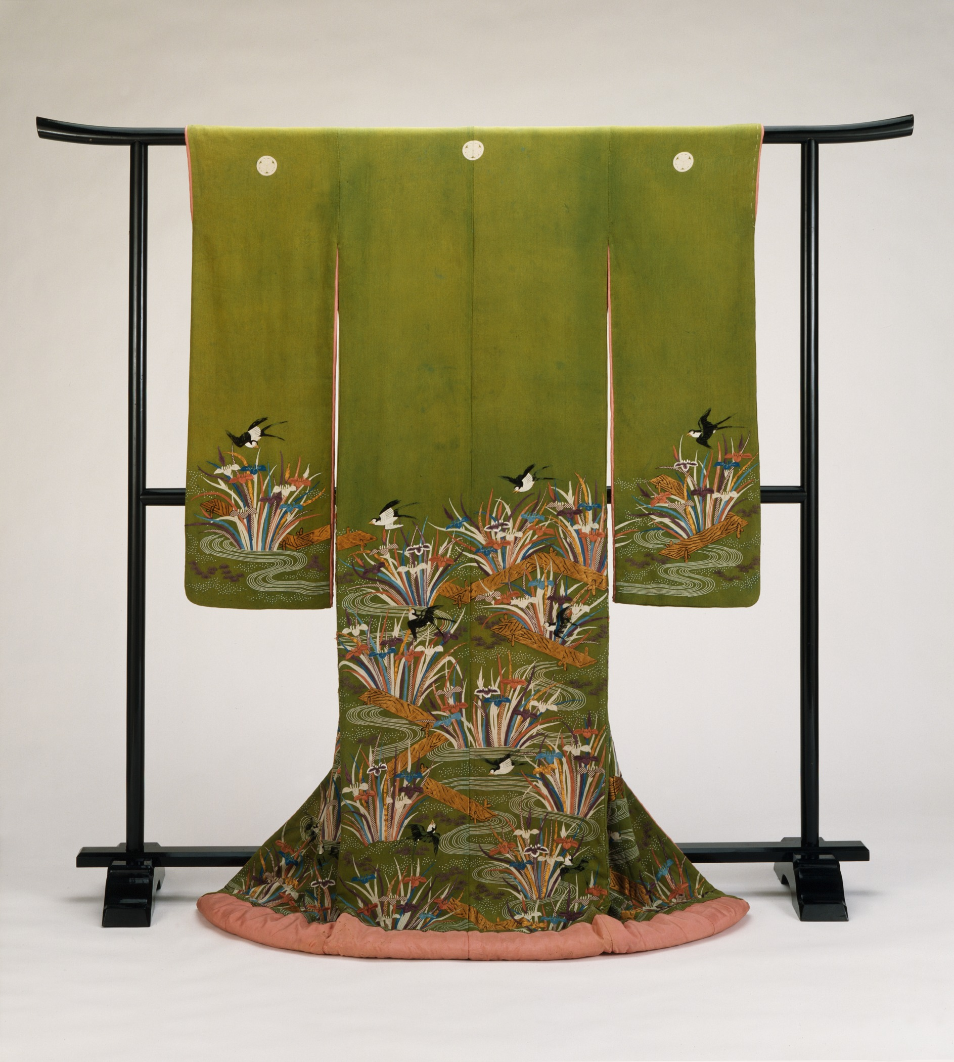 Japan, Edo period (1615-1868), late 18th-early 19th century Descriptive: Young Woman's Robe Costumes; principal attire (entire body) Paste-resist dyeing (yūzen) and silk and metallic thread embroidery on yellow-green silk crepe (chirimen) 72 1/2 x 49 1/2 in. (184.15 x 125.73 cm) Gift of Mrs. Philip A. Colman in memory of Philip A. Colman (M.90.8) Costume and Textiles